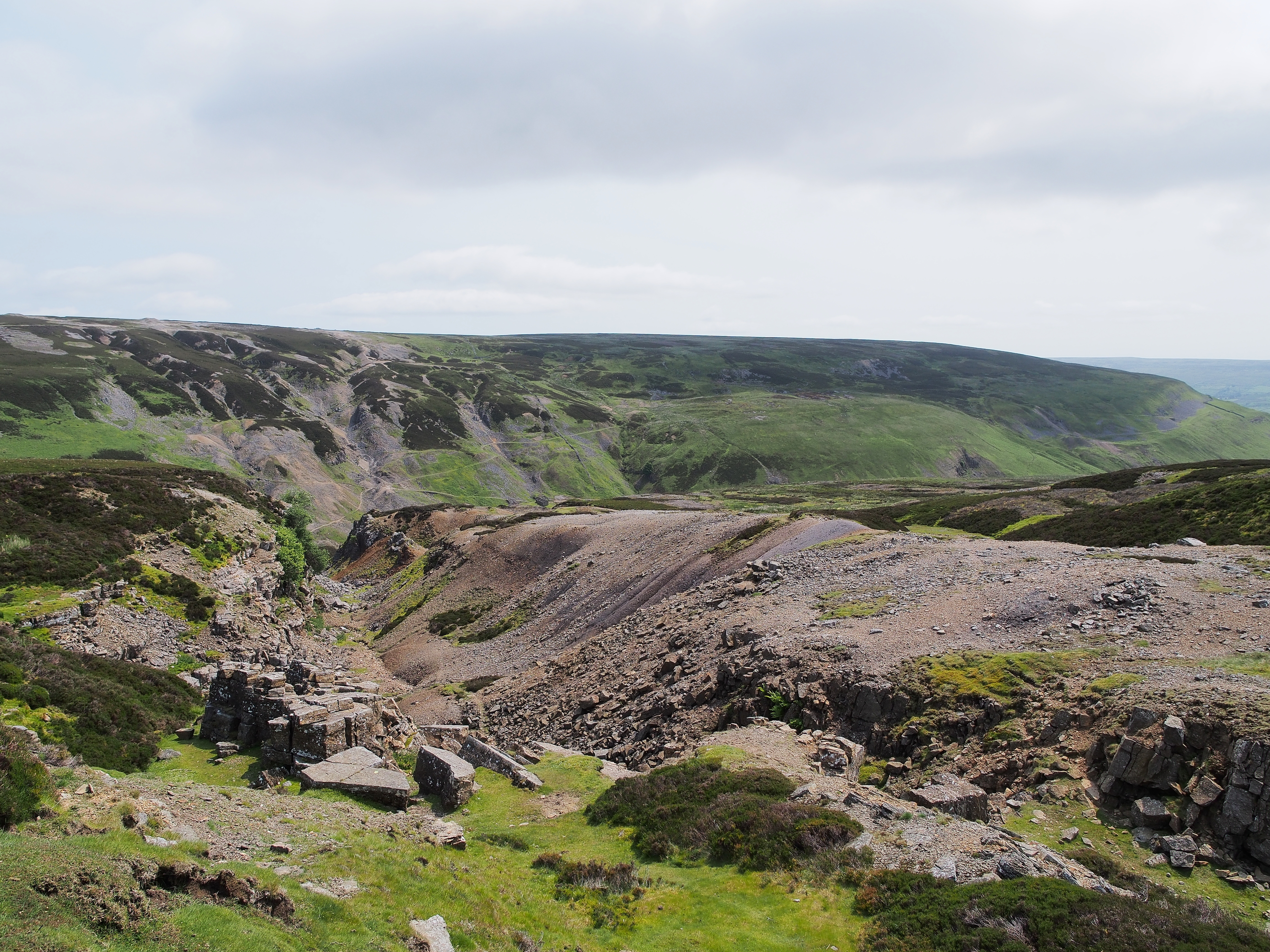 North Hush west of Gunnerside Beck, North Yorkshire. In these places lead mining was performed by letting great amounts of water rush down the hills to remove the top soil and give access to the ore.